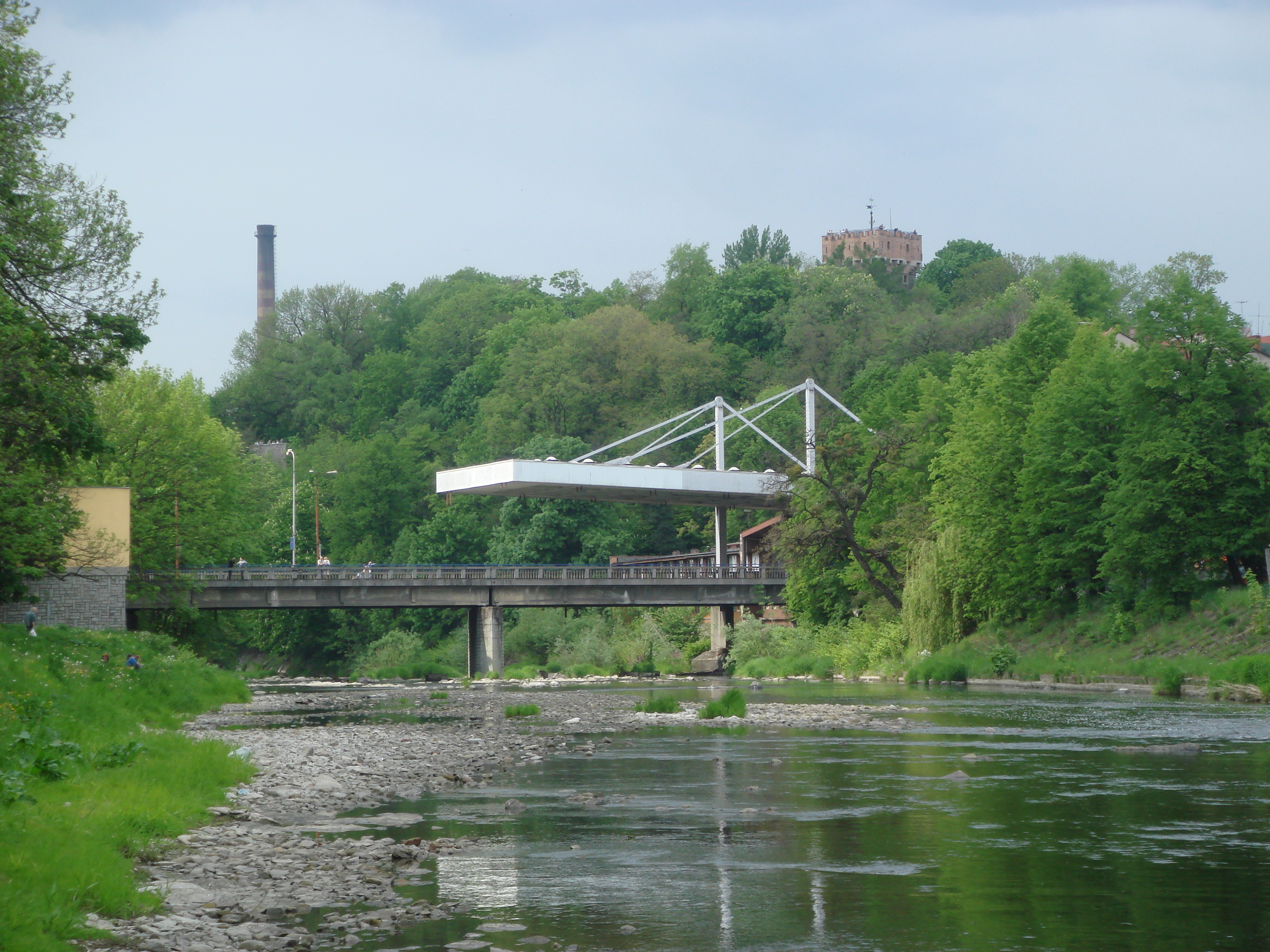 The Friendship Bridge over Olza between Cieszyn in Poland and Český Těšín in Czech Republic.